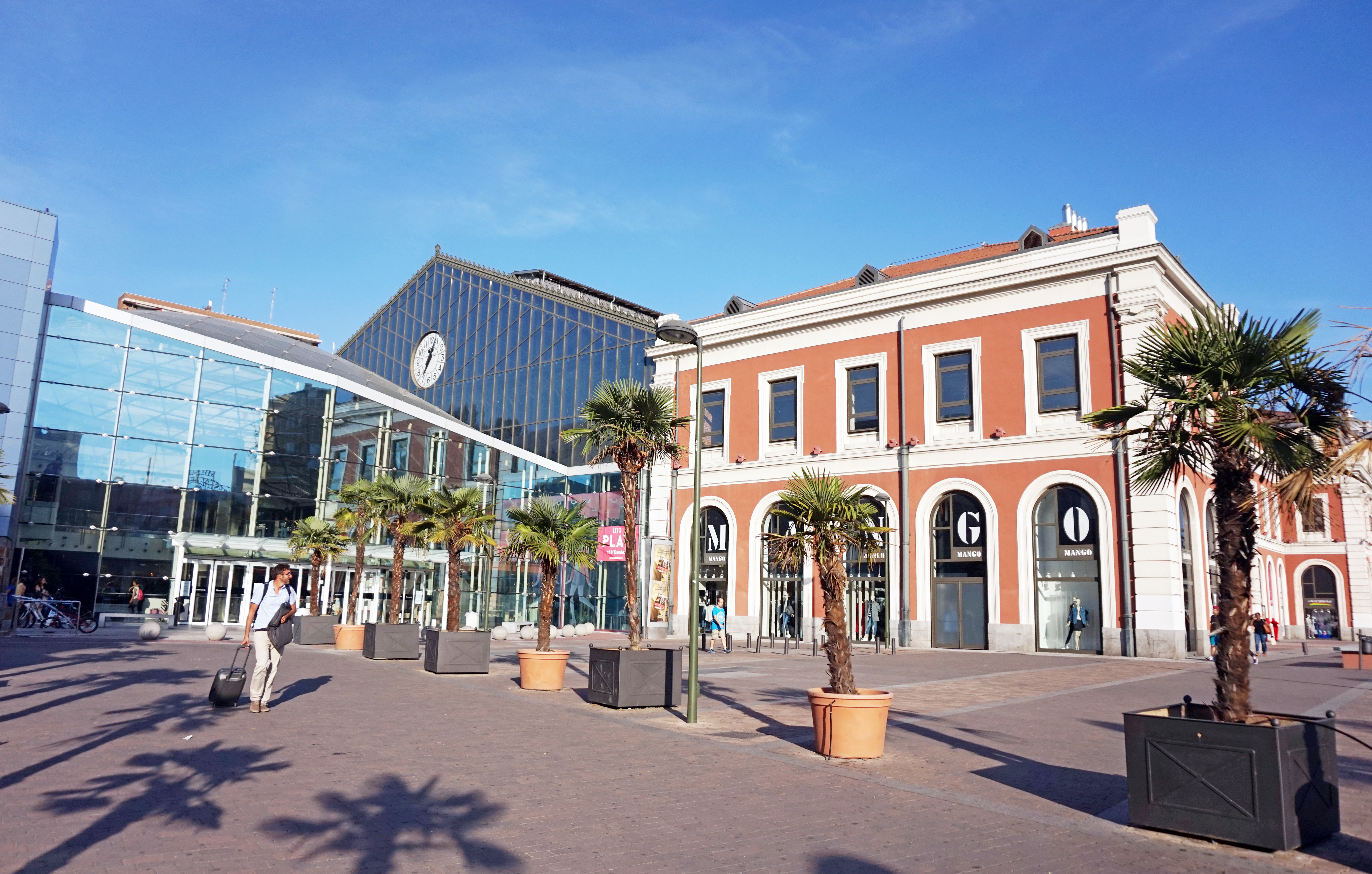 Centro Comercial Príncipe Pío in Madrid, Spain. This photograph was taken with a Sony Alpha a5000.